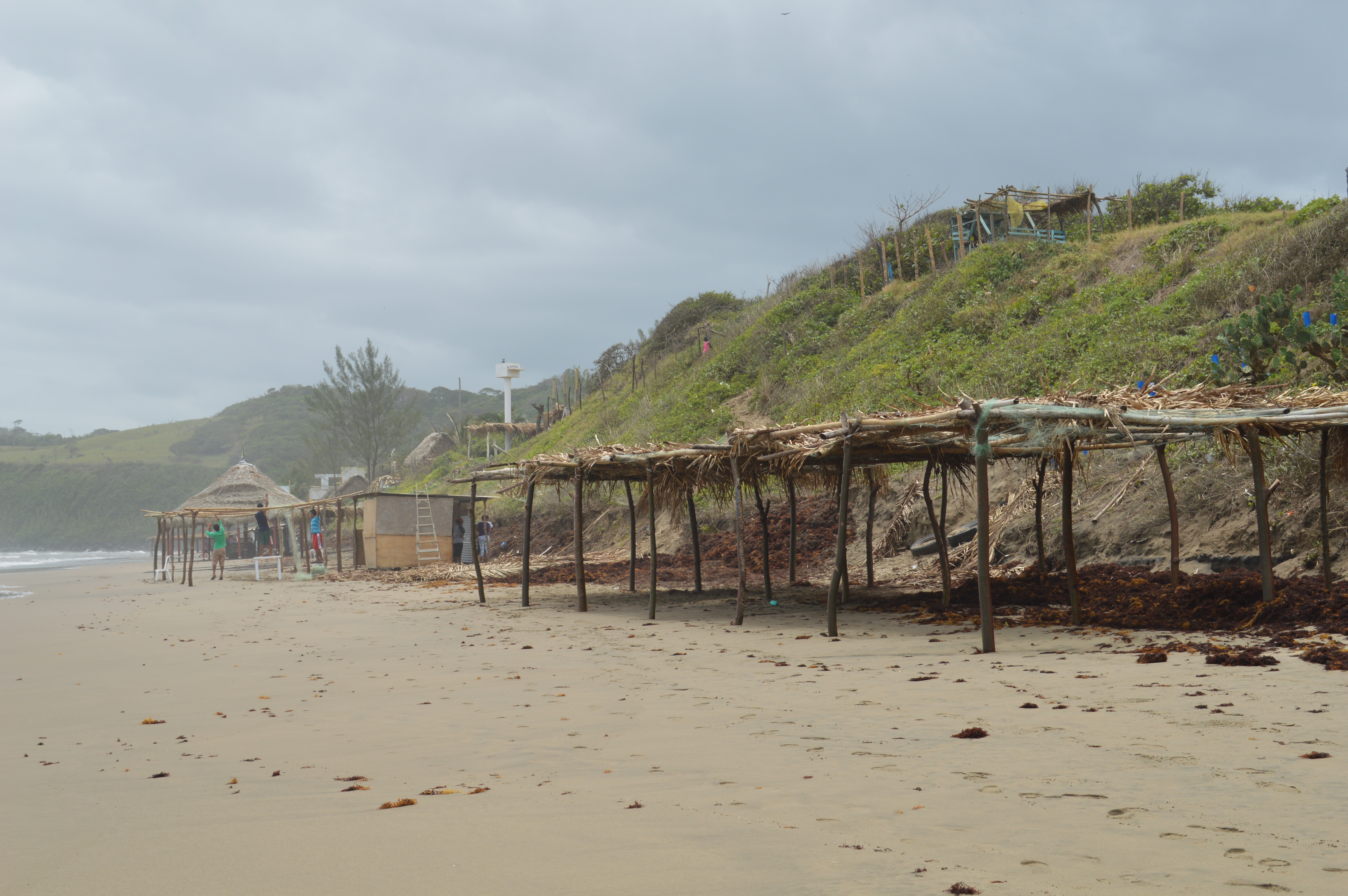 View of the beach at Barra de Sontecomapan, Catemaco, Mexico